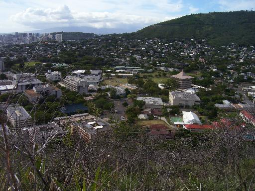 University of Hawaii at Manoa, Upper Campus. (I took this picture)